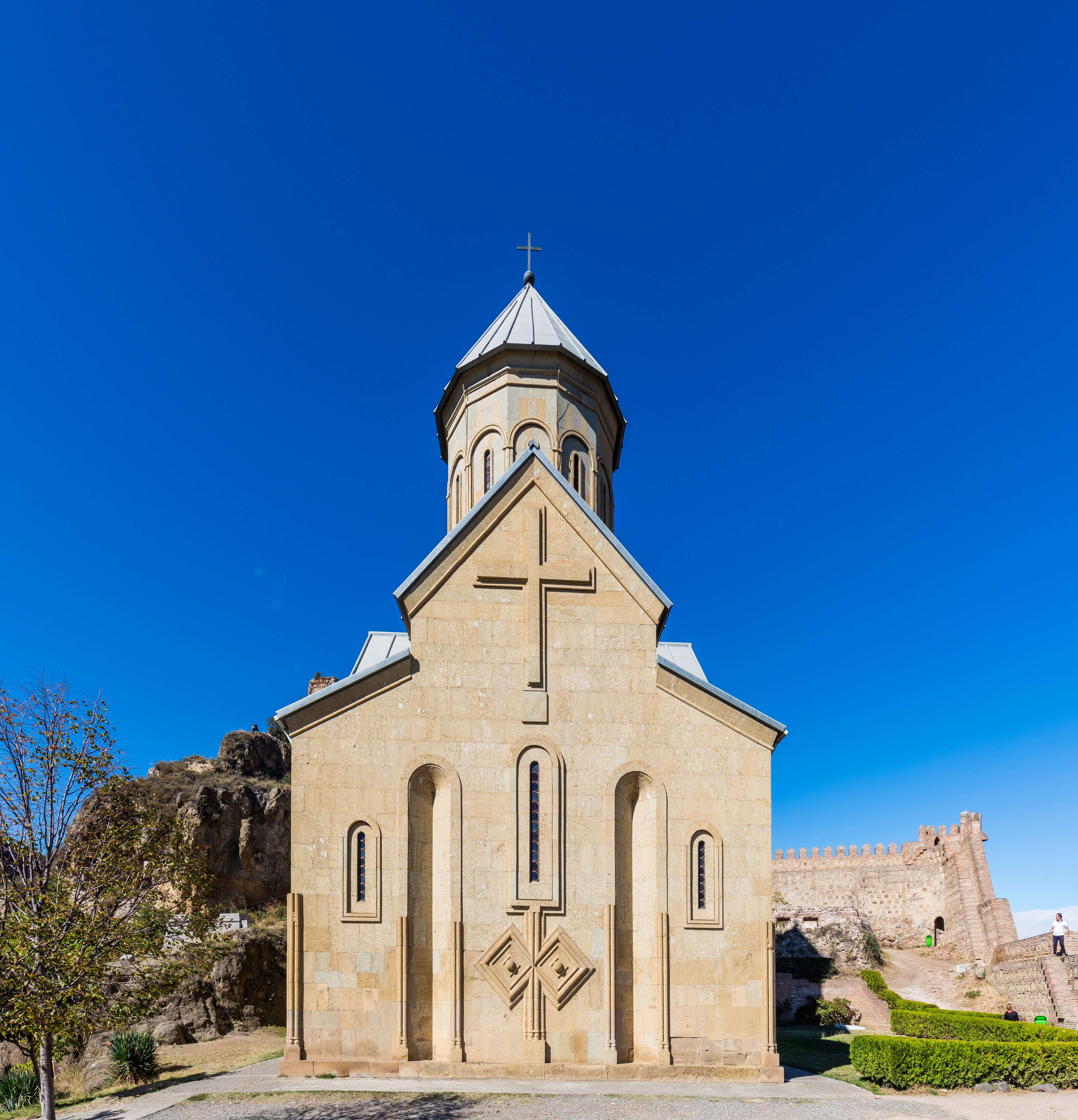 Mtatsminda Pantheon, Tbilisi, Georgia